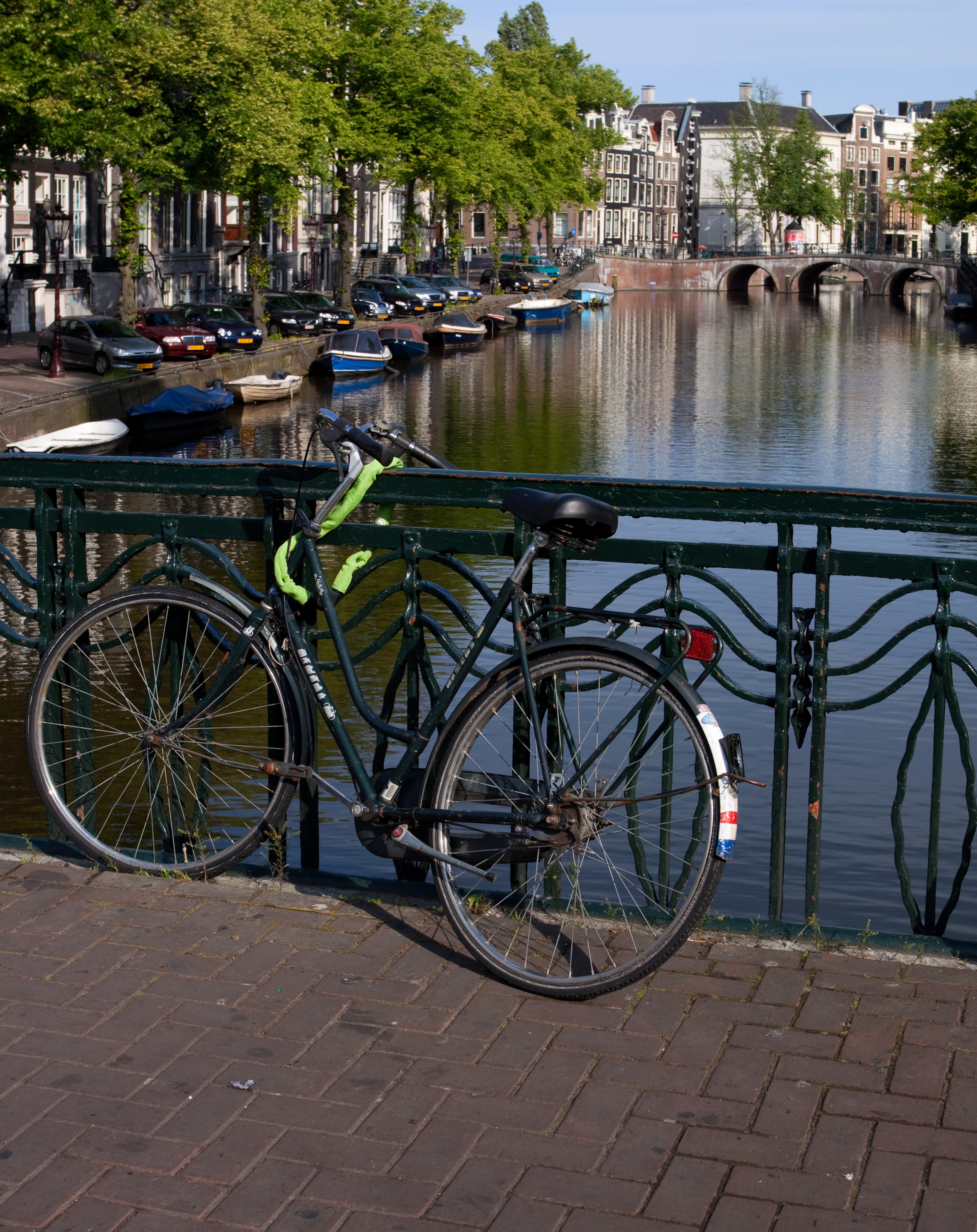 A bicycle with the Dutch flag parked on a bridge across one of Amsterdam's many canals.